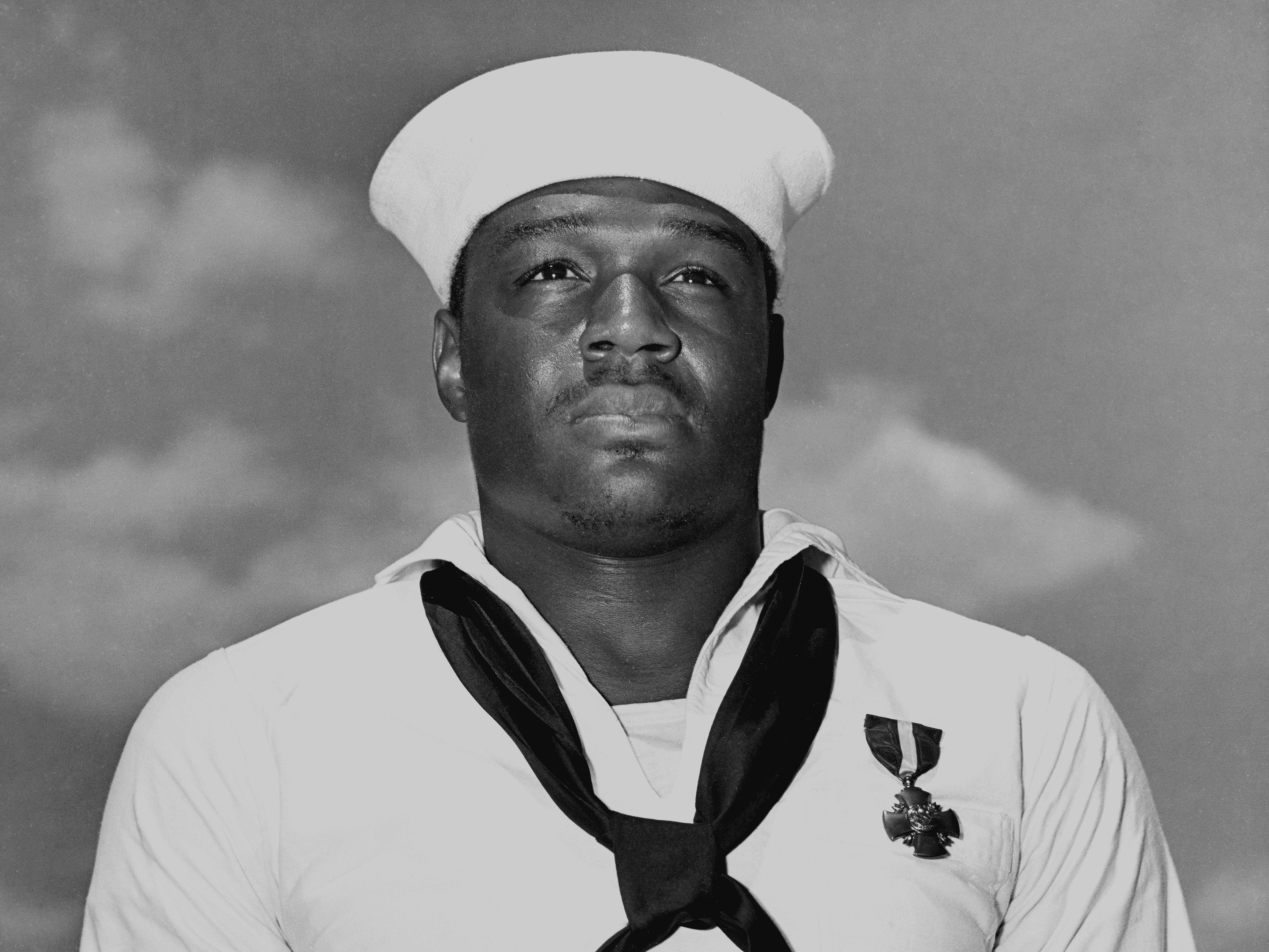 Doris "Dorie" Miller, Mess Attendant Second Class, USN (1919-1943) just after being presented with the Navy Cross by Admiral Chester W. Nimitz, on board USS Enterprise (CV-6) at Pearl Harbor, 27 May 1942. The medal was awarded for heroism on board USS West Virginia (BB-48) during the Pearl Harbor Attack, 7 December 1941. Official U.S. Navy Photograph, now in the collections of the National Archives.